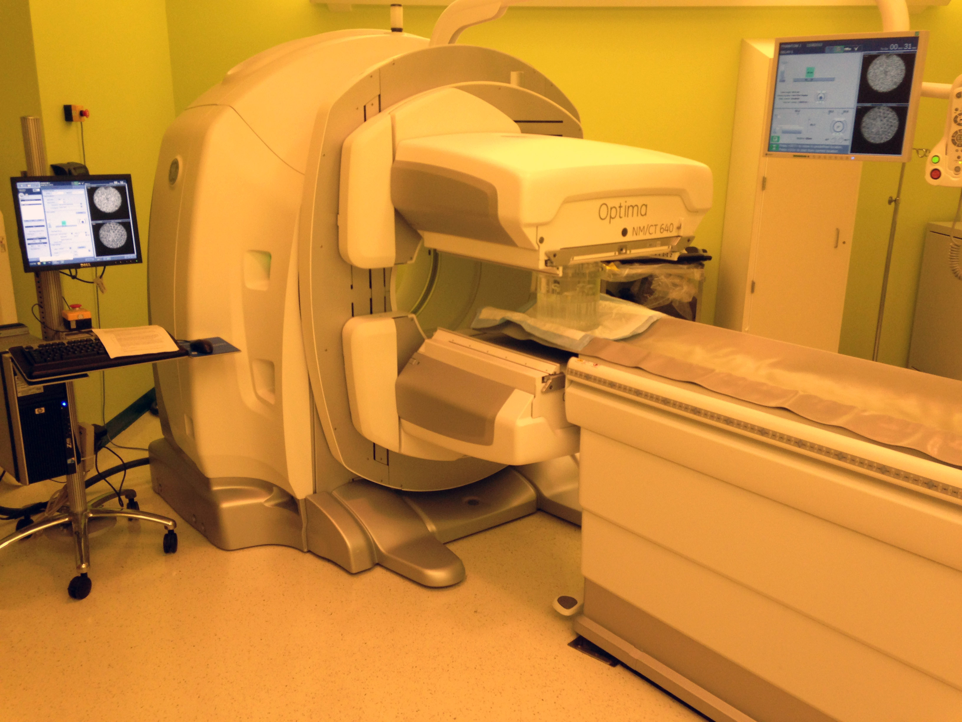 A GE SPECT-CT Optima 640